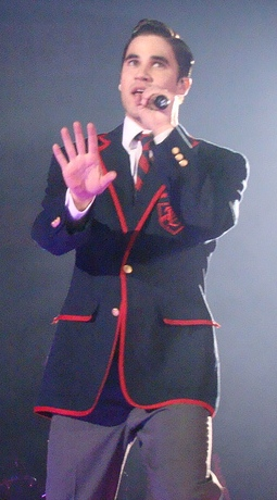 Darren Criss, in character as Blaine Anderson performing "Raise Your Glass" on the Glee Live! In Concert! tour in Manchester, England on June 23, 2011.